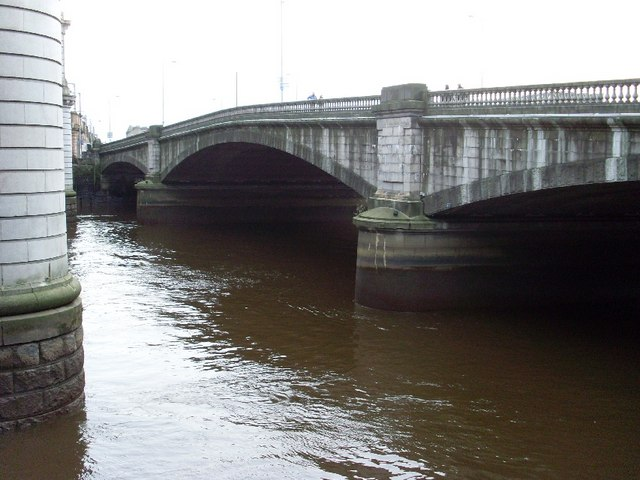 King George V Bridge, Glasgow Joins Oswald Street to the north with Commerce Street to the south.